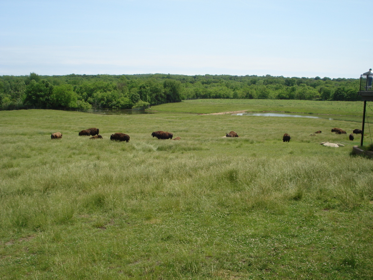 Bison and water on the rolling prairie outside an observation deck at Wildlife Prairie Park near Peoria, Illinois